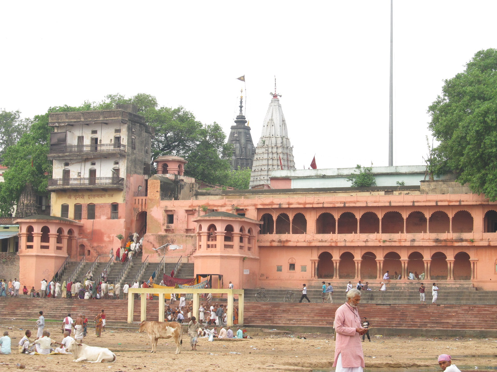 Vishnupad Temple, Gaya